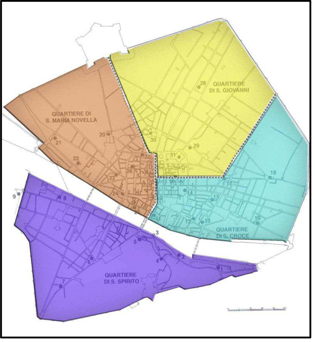 Districts of Florence from 1343